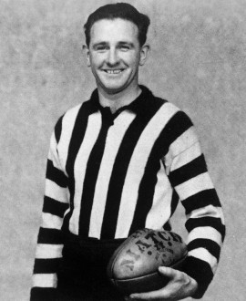 Photo of Ron Hibbert in 1944